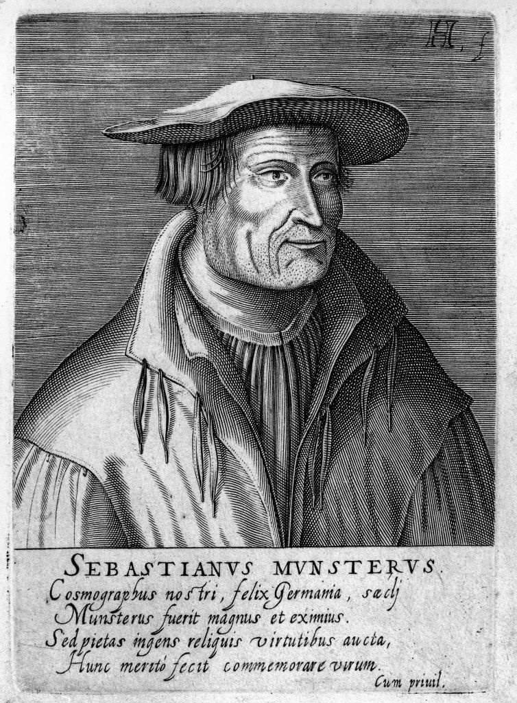 Sebastian Münster` book portrait from "Praestantium aliquot Theologorum qui Rom. Antichristum praecipue oppugnarunt, Effigies; quibus addita Elogia, Librorumque Catalogi". by Jacobus VERHEIDEN. .Pp. 226. Ex officina B.C. Nieulandii: Halæ Comitis, 1602. Museum im Melanchthonhaus Bretten.